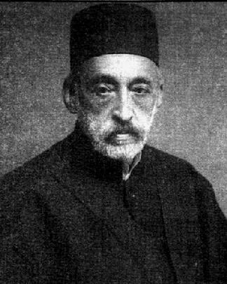 Mehdi Gholi Hedayat, prime minister of Iran